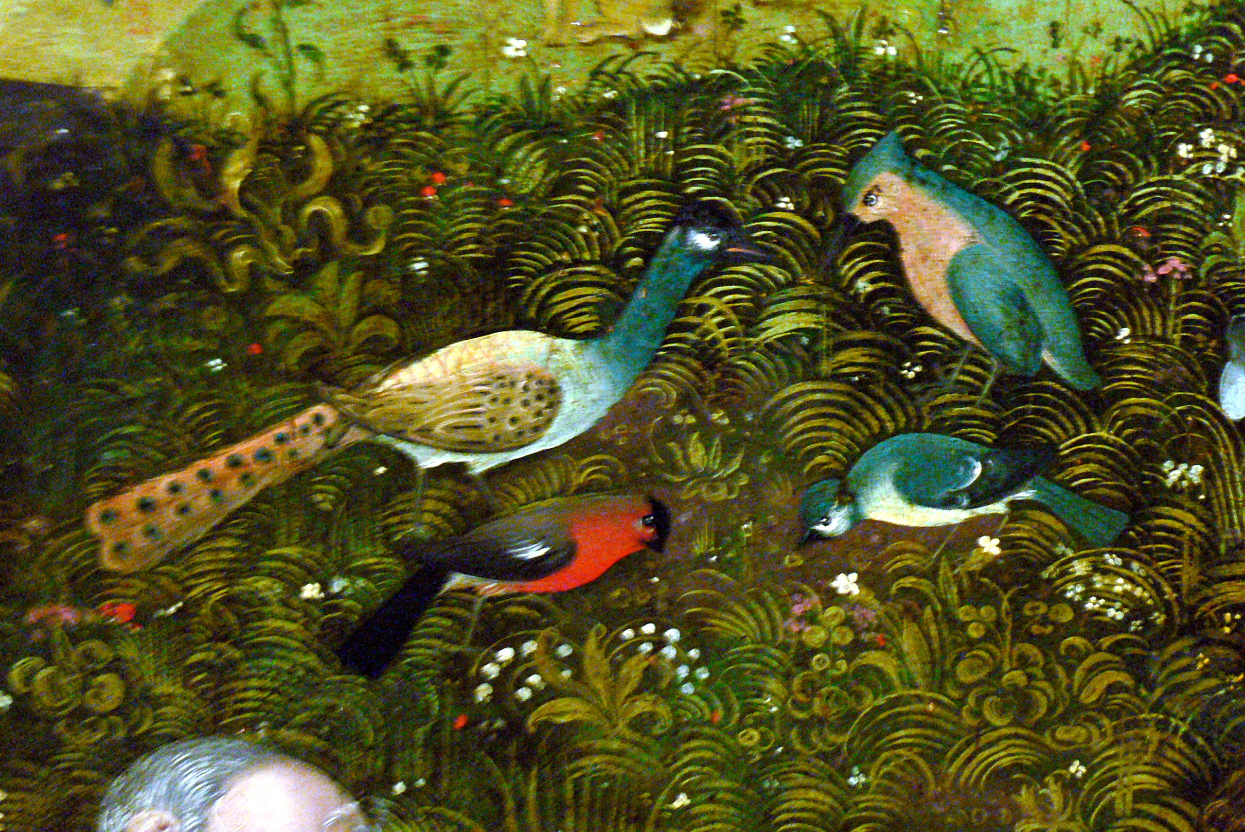 Oberhausmuseum ( Passau ). Christ on the Mount of Olives ( 1510s ) - detail: Birds in Gethsemane.